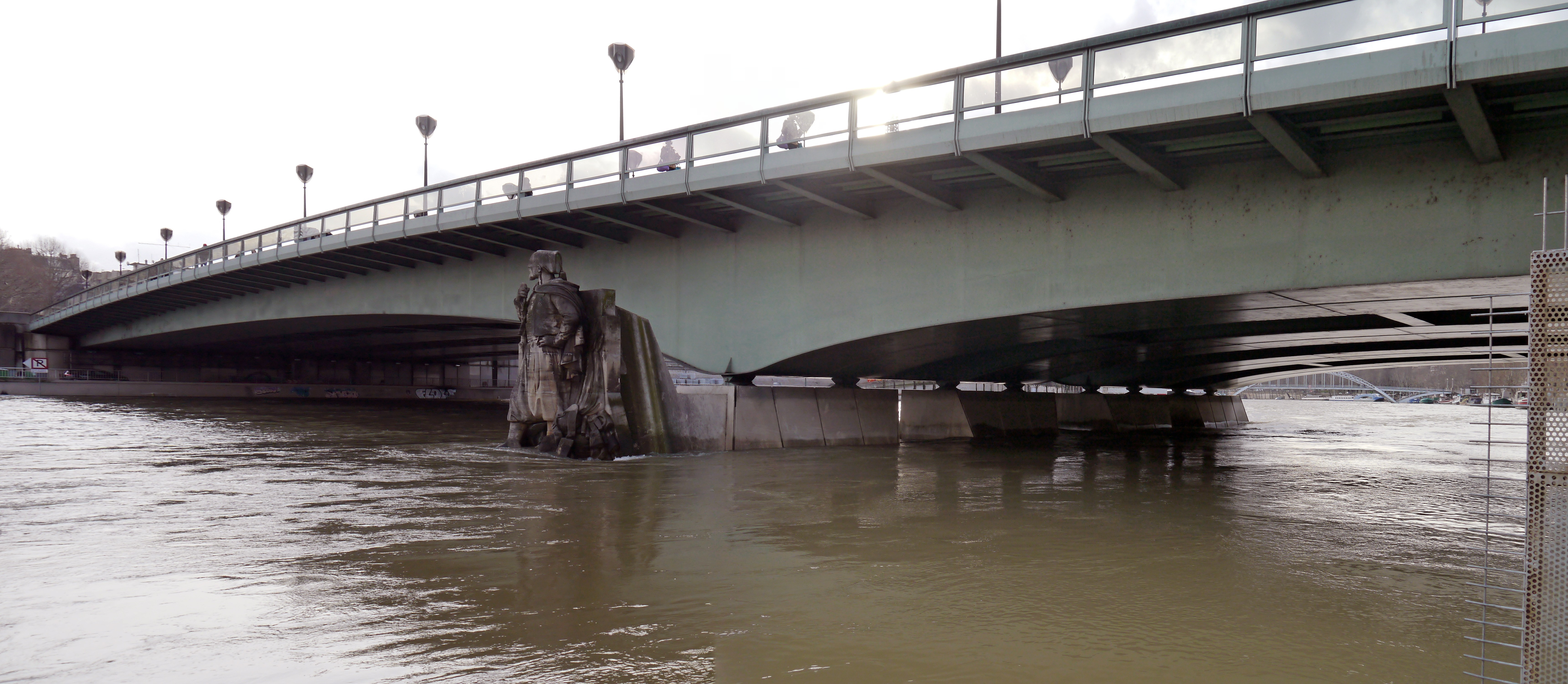 Pont de l'Alma, Paris, France.